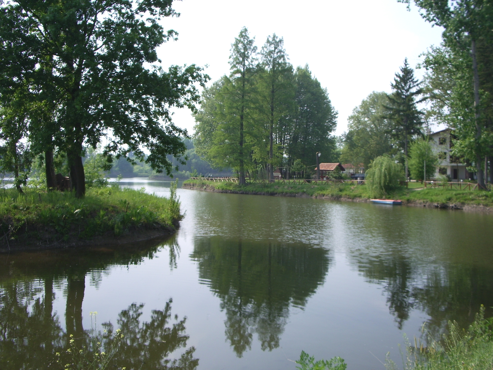 Park Ormana, Yambol, Bulgaria